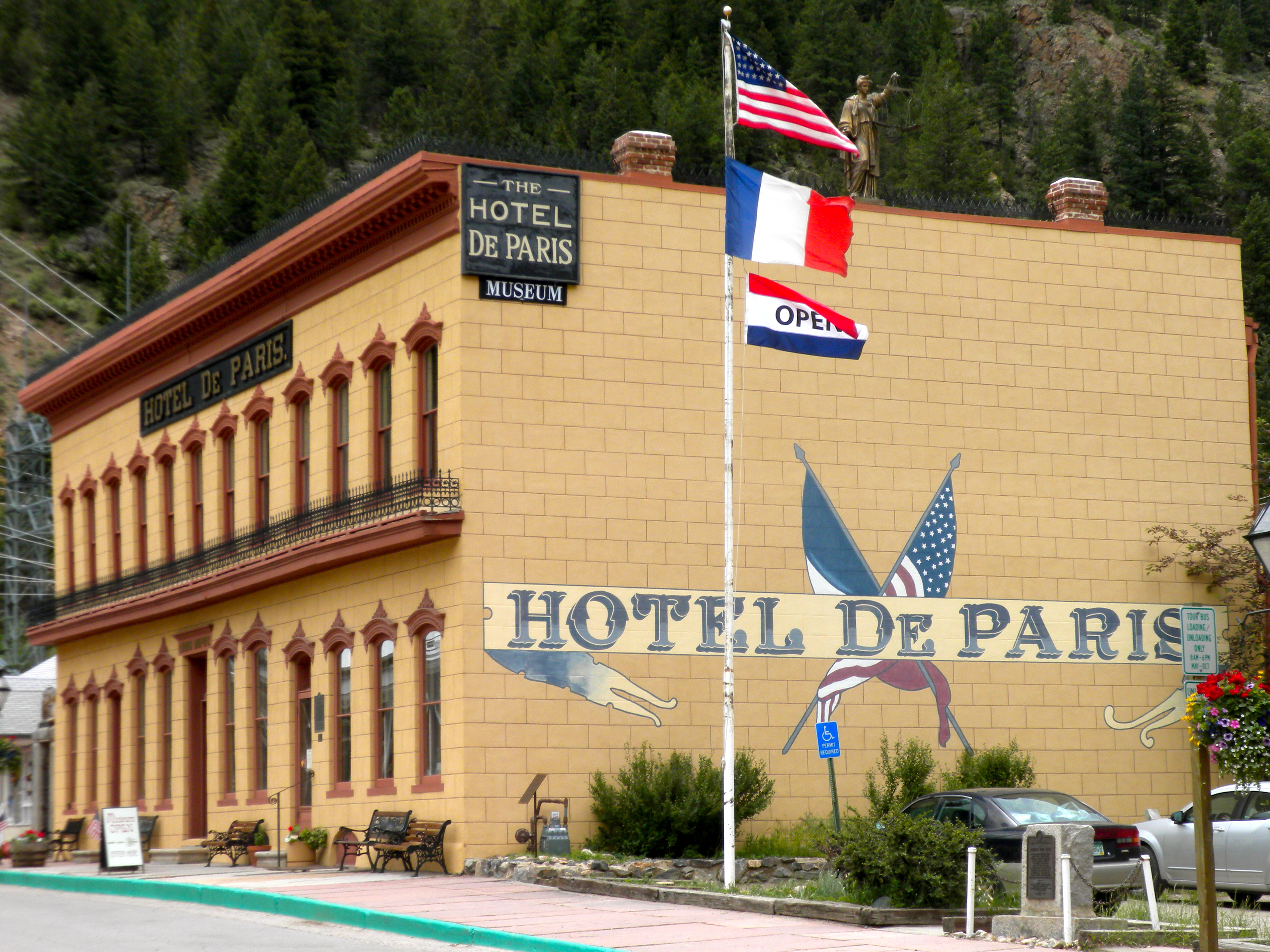 Hotel de Paris on NRHP since April 28, 1970. On the main street, Alpine St., Georgetown, Colorado